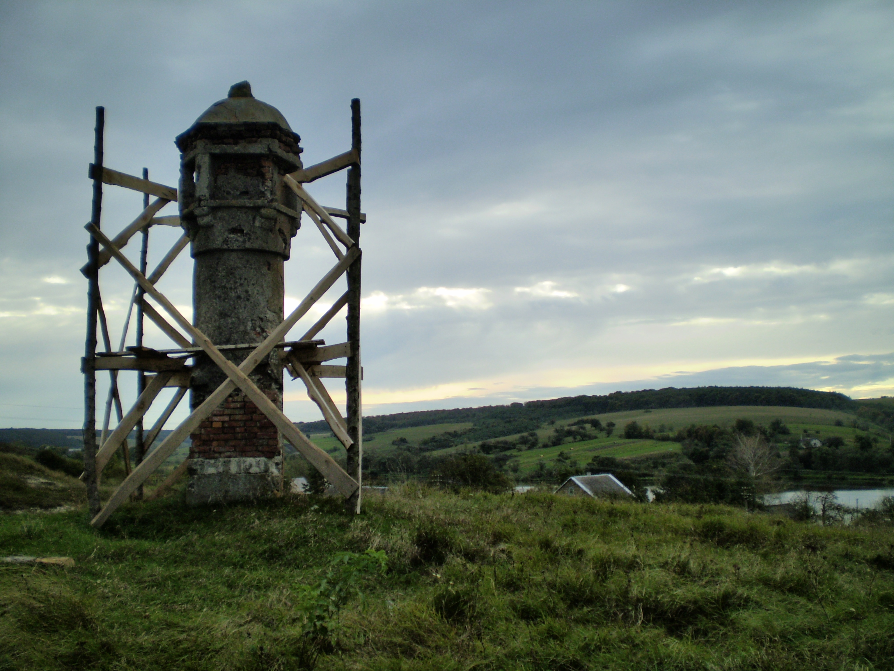 Saint Mark statue in Gologory